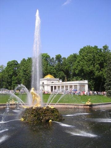 "Samson" fountain in Peterhof